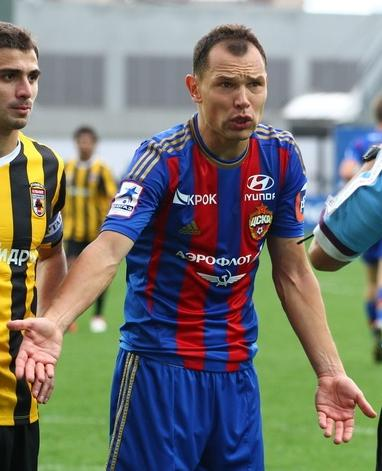 Sergei Ignashevich with PFC CSKA Moscow in 2012.